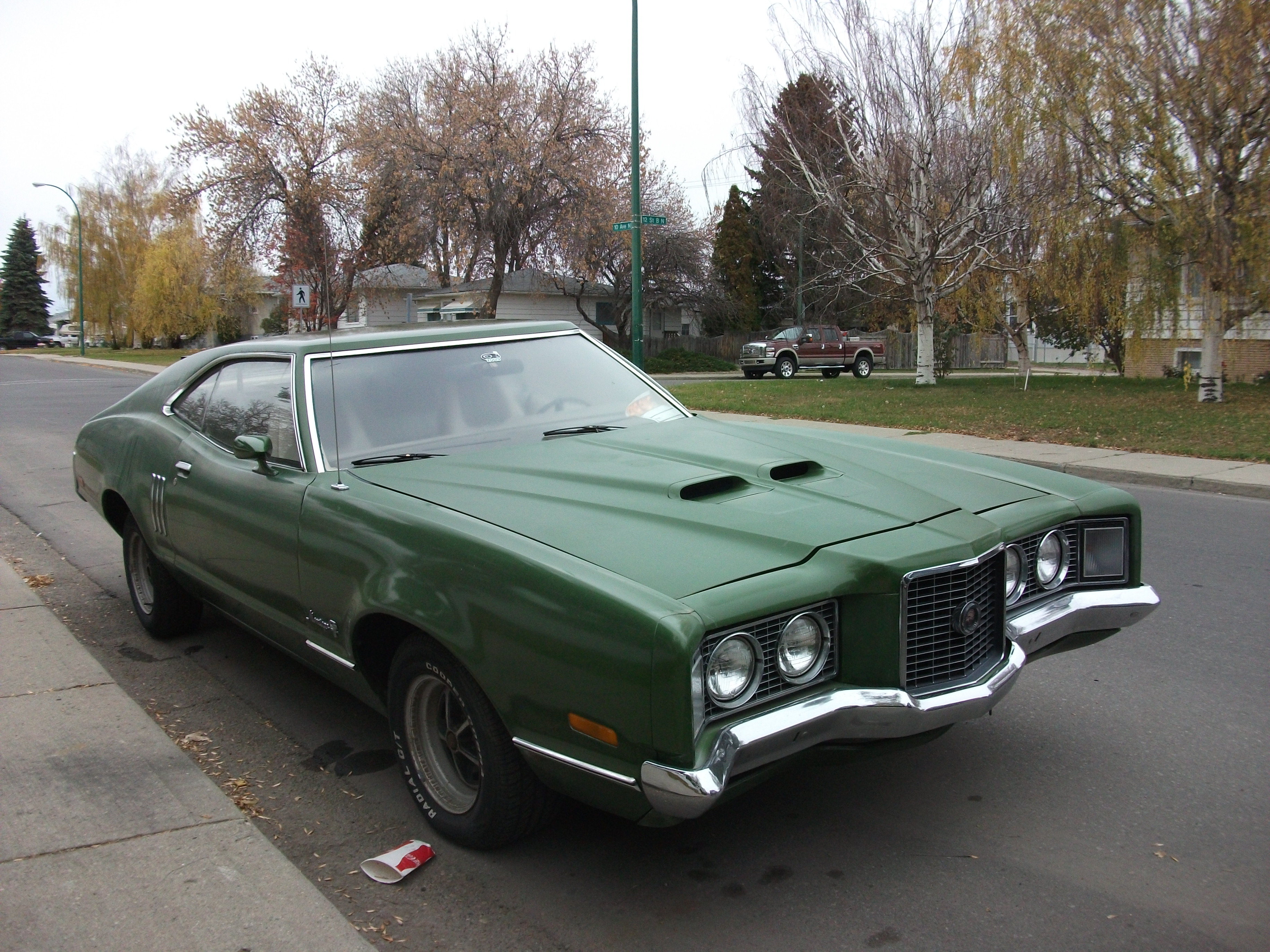 A photograph of a green 1972-1973 Mercury Montego GT hardtop coupe.